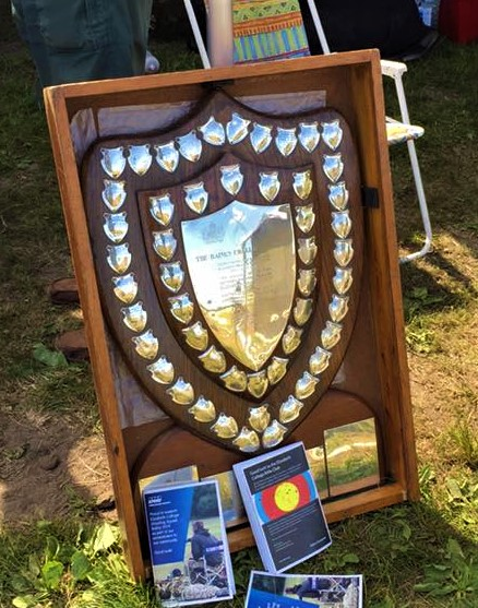 The Haines Shield